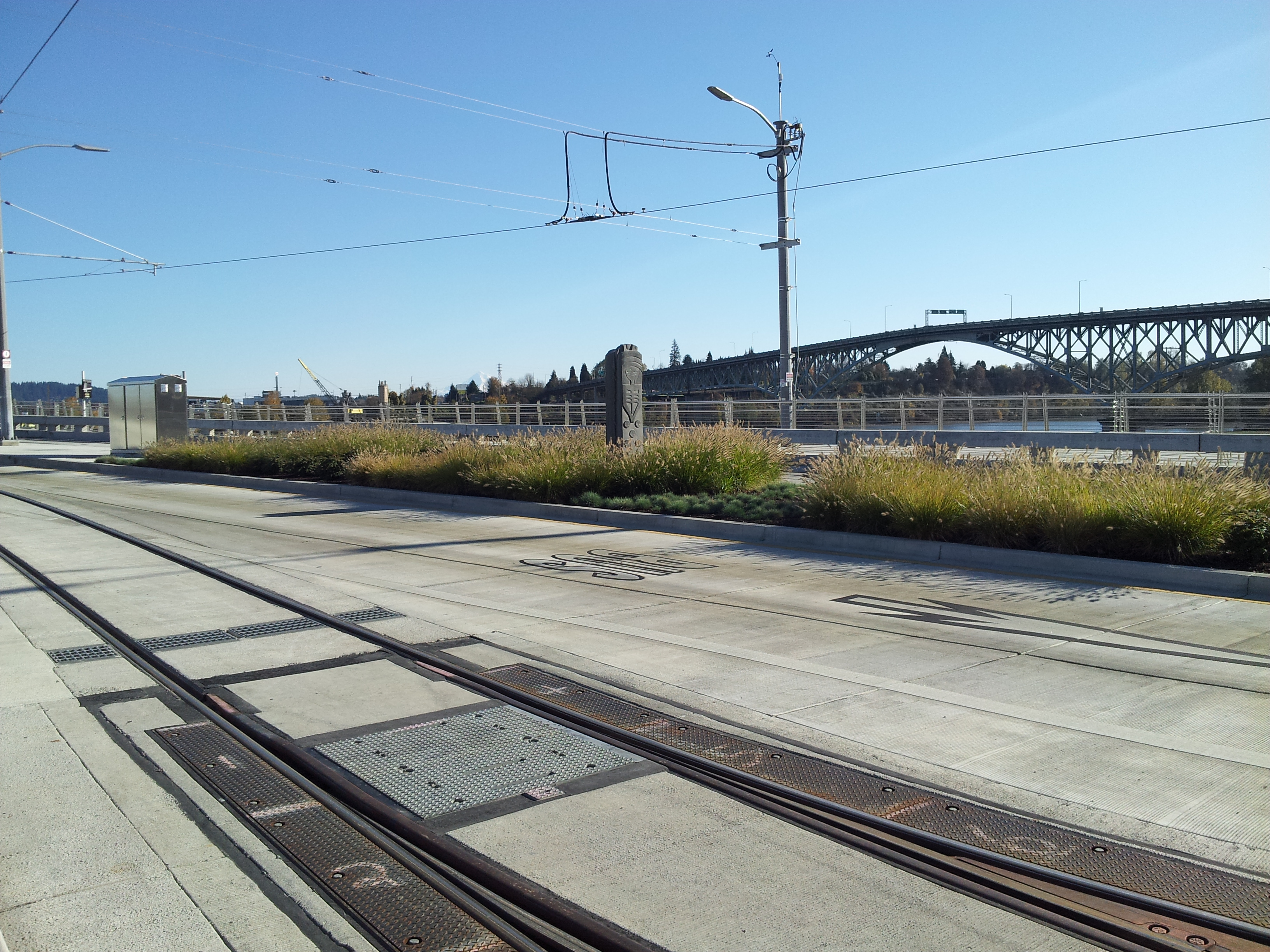 West end of Tilikum Crossing in November 2015. The Ross Island Bridge is in the background.